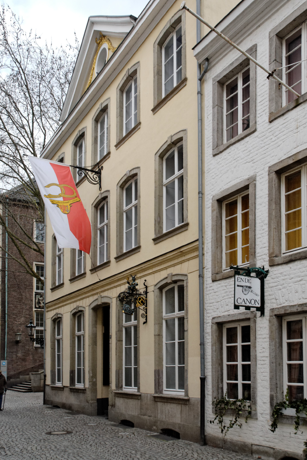 Haus des Karnevals, Zollstraße 9 in Düsseldorf-Altstadt, Germany This is the photograph of an architectural monument. It is part of the list of cultural monuments of Düsseldorf, no. 325